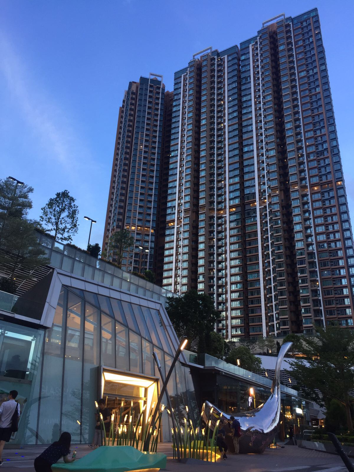 Night in Grand YOHO